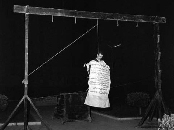 Eli Cohen was publicly hanged by Syria on May 18, 1965.